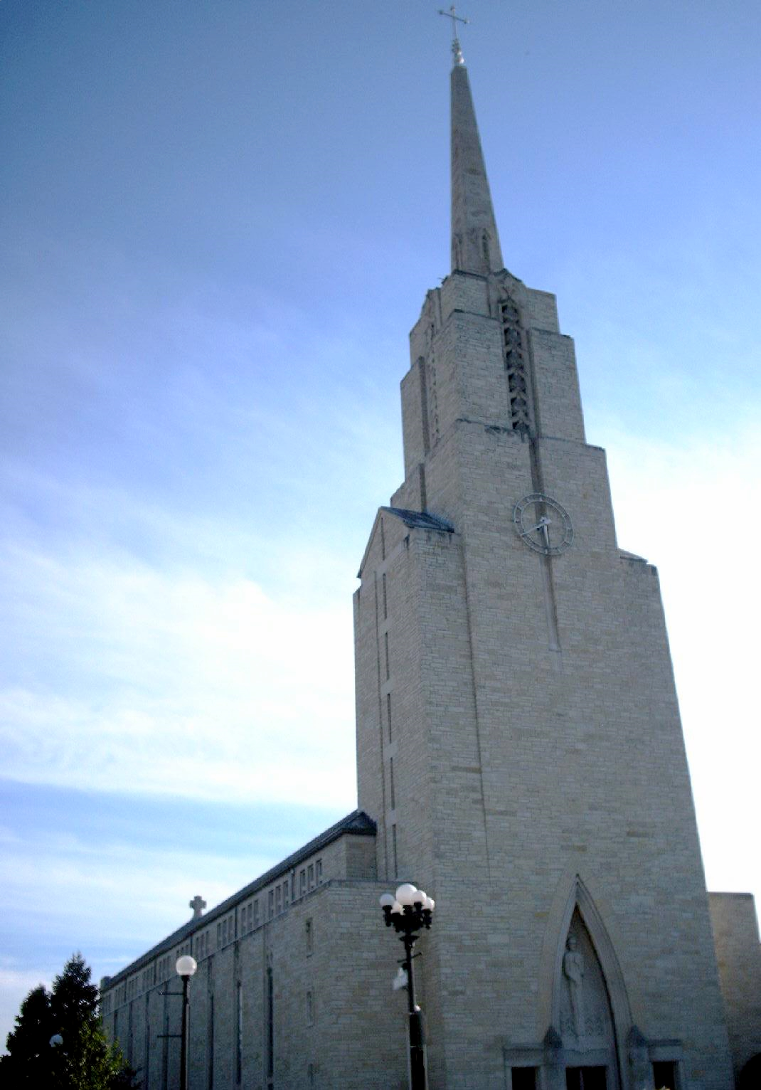 Cathedral of Saint Joseph the Workman in La Crosse, Wisconsin